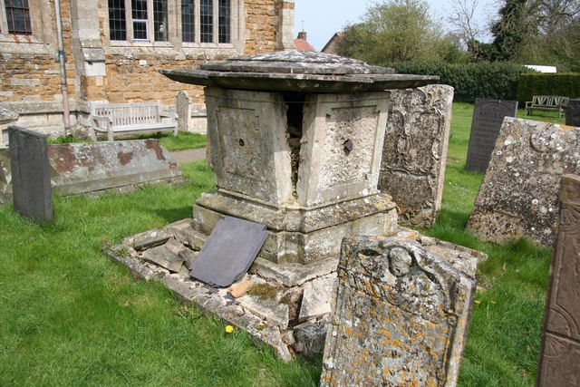 Tomb chest After 150 years, held together by wire and a prayer Sacred to the Memory of Willm Taylor. Gent. late of Kirton Holme who died at Barrowby October 4th 1852 Aged 89 years